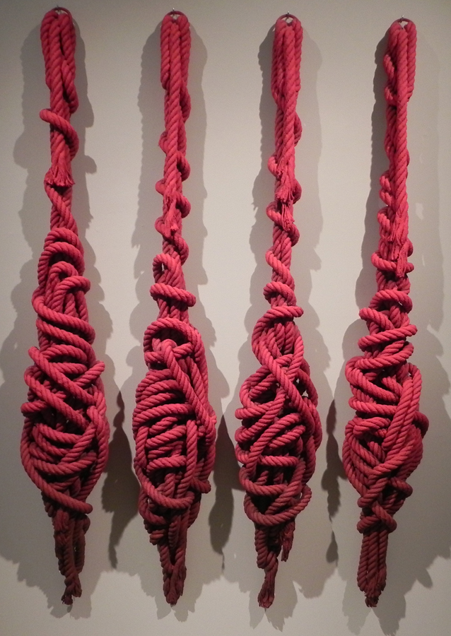 Jiménez-Balaguer Catalonia 2001